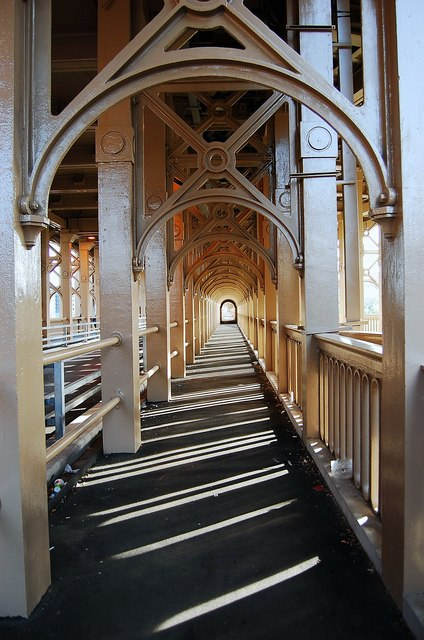 Newcastle high level bridge Newcastle was the setting for the classic 1971 gangster film 'Get Carter' Many of Newcastle's iconic landmarks were used. This is the high level bridge that featured in Carter's meeting with Margaret, and the car chase scene. The High Level Bridge is a road and rail bridge that spans the River Tyne between Newcastle upon Tyne and Gateshead in North East England. Designed by Robert Stephenson and built between 1847 and 1849, it is the first major example of a wrought iron tied arch or bow-string girder bridge. For more pictures